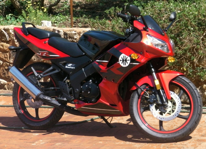 A Bashan 125R in Dark Candy Apple Red.